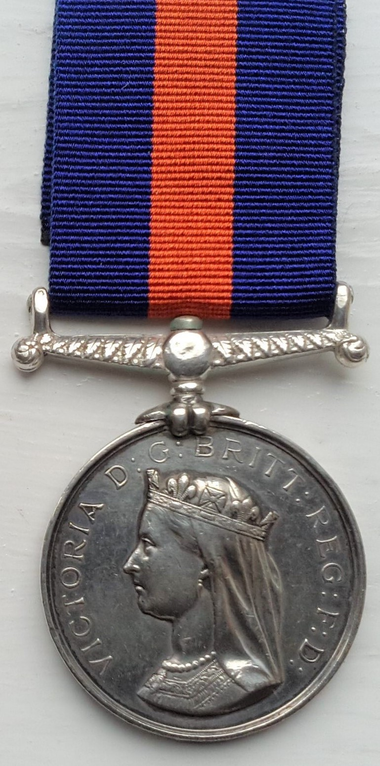 Campaign medal awarded to both British and local New Zeland militia for service in the Maori Wars that took place between 1845-1866.